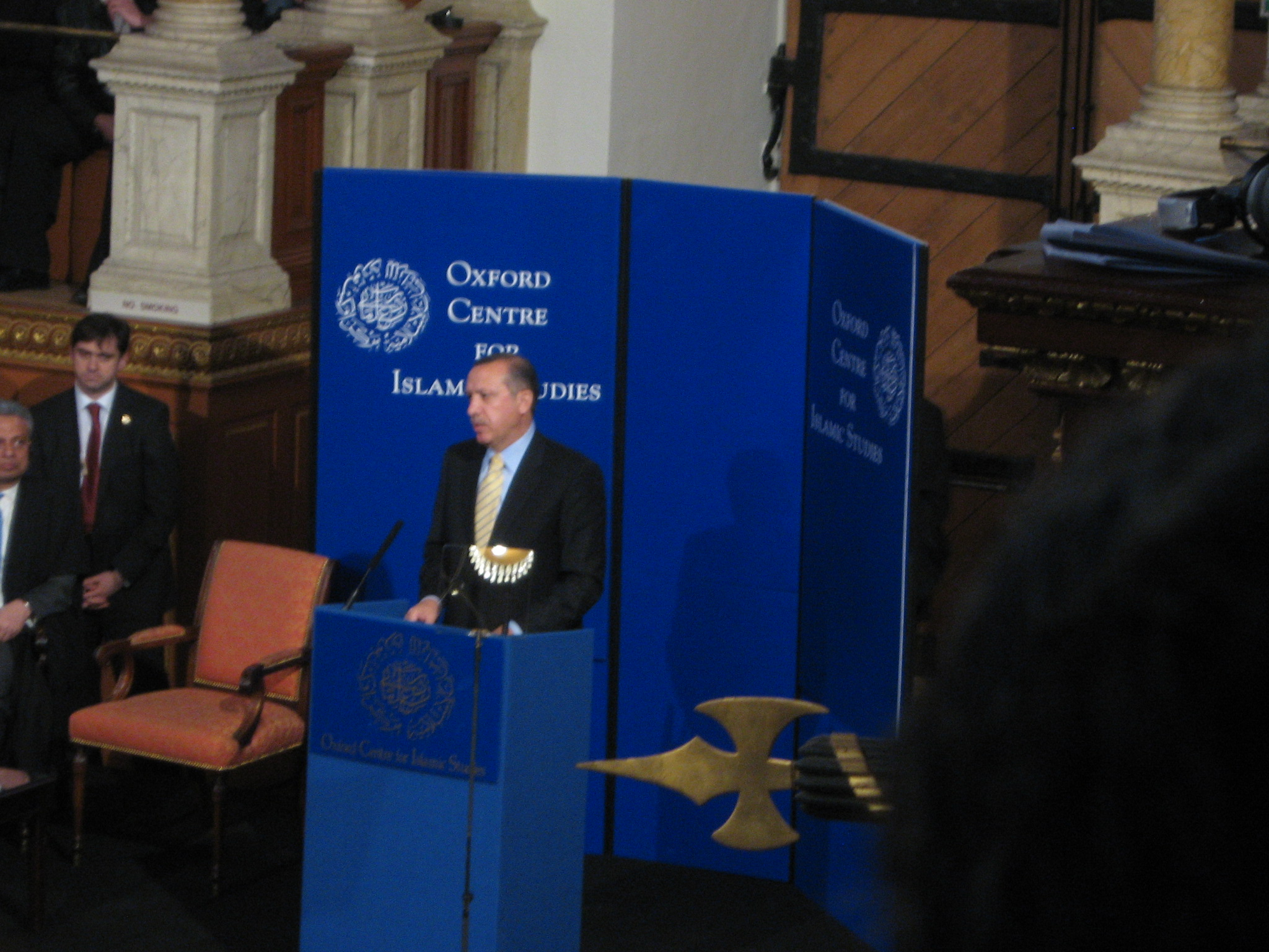 Recep Tayyip Erdoğan speaking at the University of Oxford